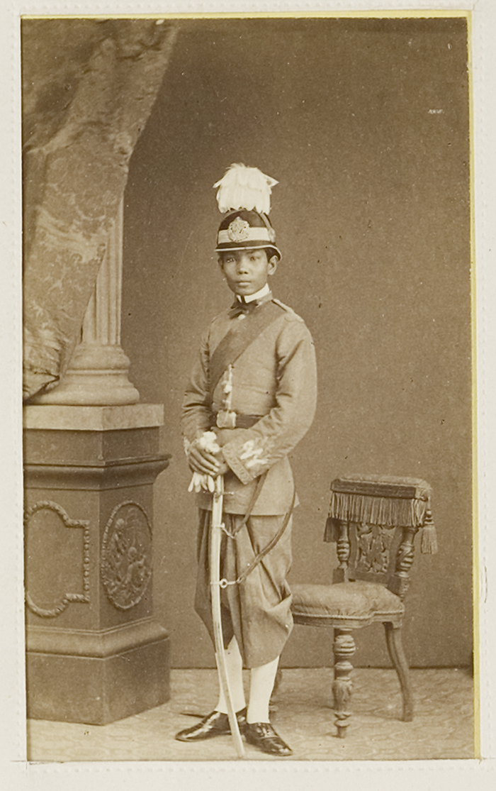 The young man depicted in this carte-de-visite photograph was the aide-de-camp to the ambassador of the Kingdom of Siam in the Dutch colonial capital of Batavia (present-day Jakarta). Siam established diplomatic relations with the Dutch East India Company as early as 1609, and the relationship continued after the government of the Netherlands took over governing the Dutch East Indies from the company. The photograph was taken by the studio of Woodbury & Page, which was established in 1857 by the British photographers Walter Bentley Woodbury and James Page. The photograph is from the collections of the KITLV/Royal Netherlands Institute of Southeast Asian and Caribbean Studies in Leiden. Military personnel